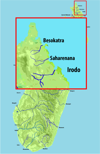 Basins of rivers Saharenana, Besokatra and Irodo